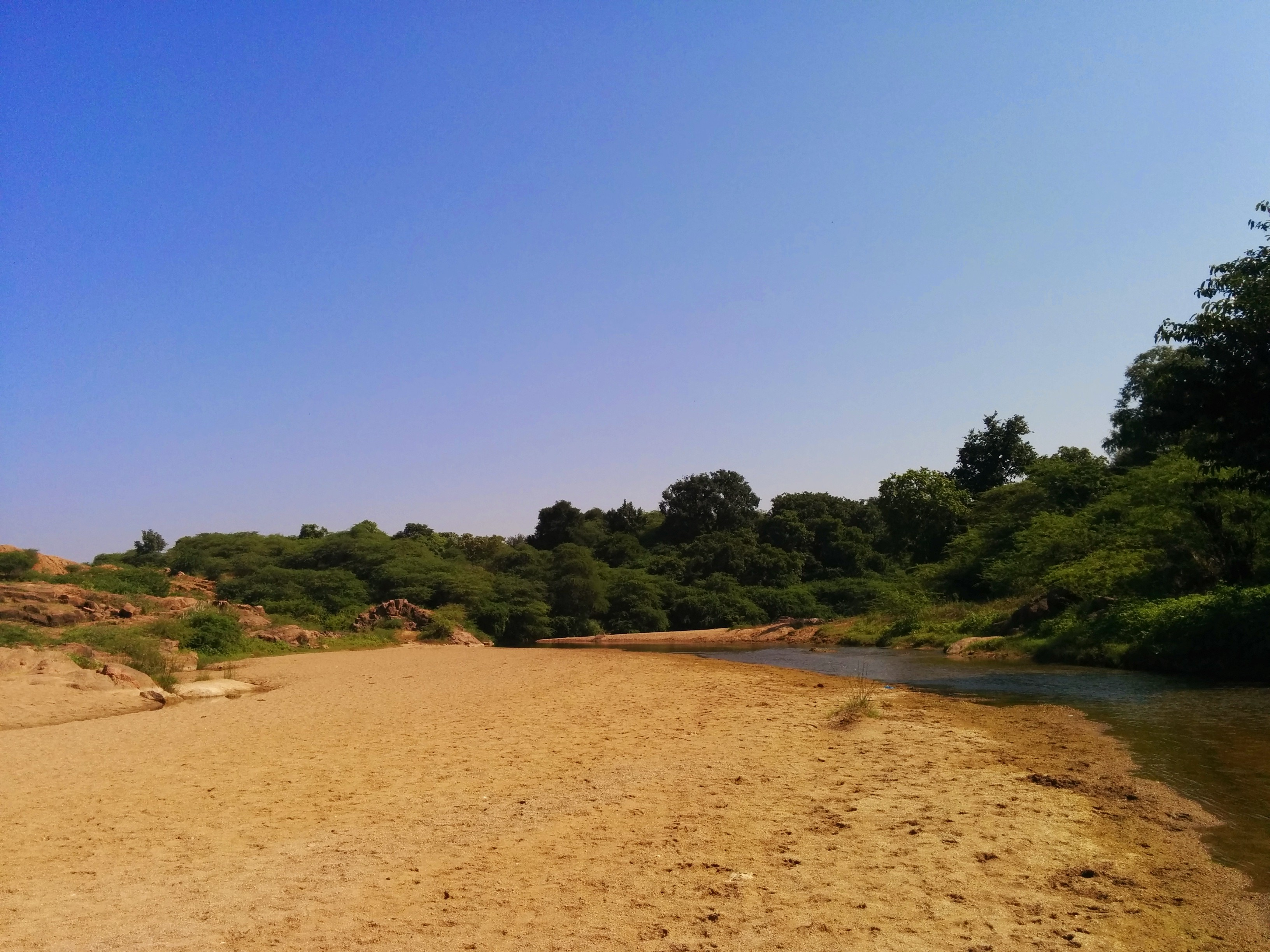 Balaram River near Balaram, Banaskantha